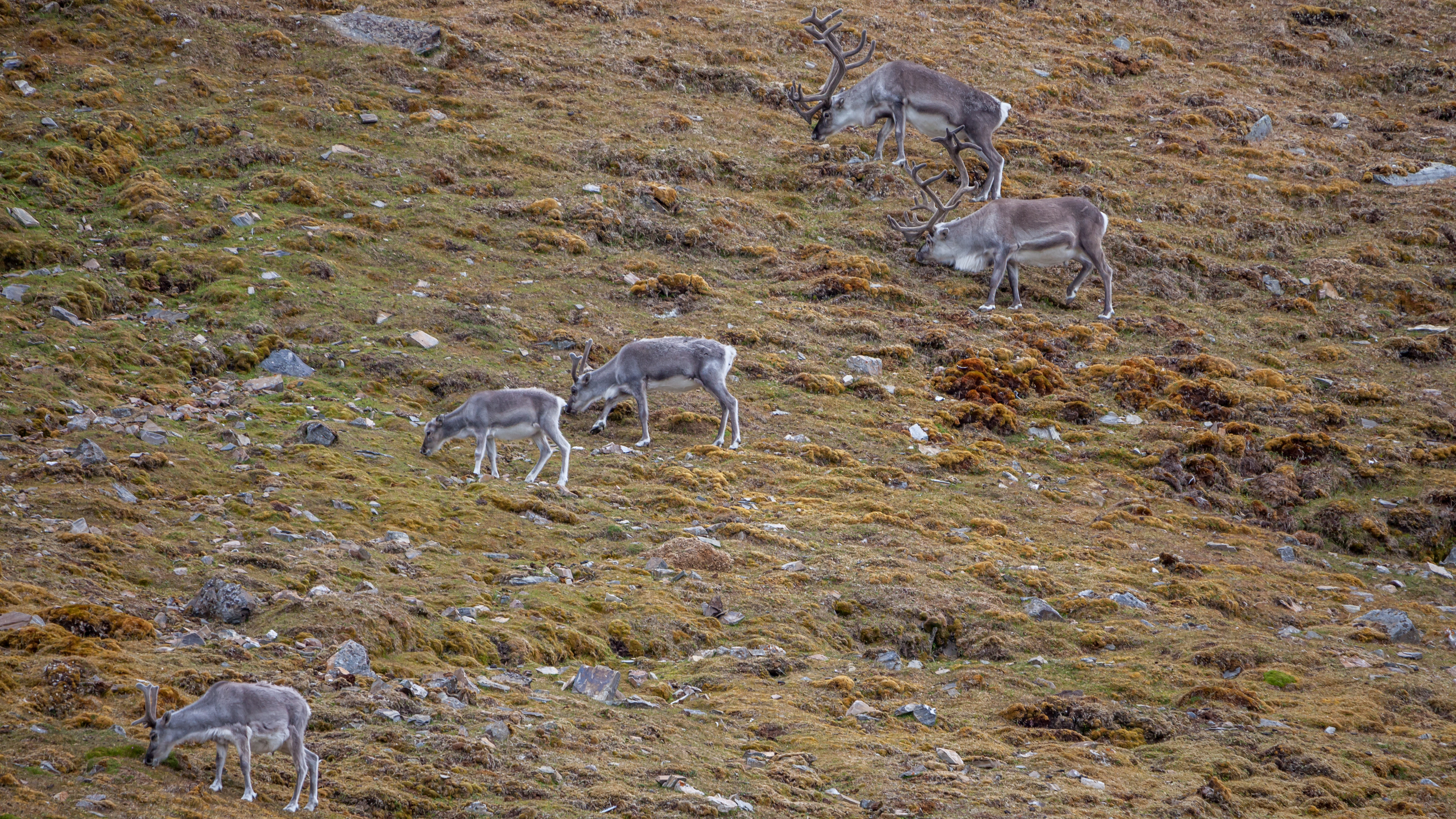 Svalbard reindeers (Rangifer tarandus platyrhynchus) are smaller and more stocky than their continental relatives. Also, their life expectancy is shorter than that of the mainland animals. This is mainly owing to the fact that they often suffer from tooth injuries when grazing on the low tundra plants. This often leads to inflammation of the dental necks, which is lethal for the animals. Svalbard reindeers seldom become older than ten years of age.